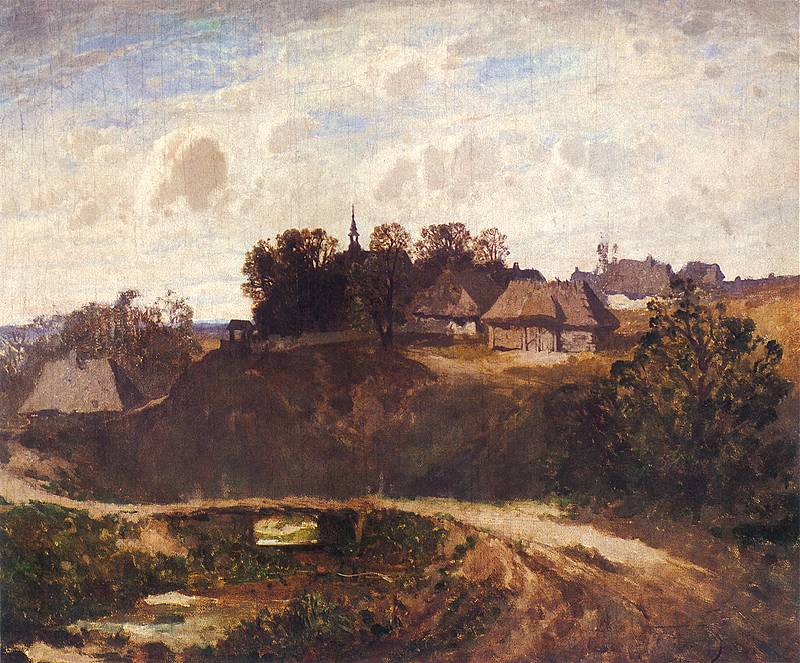 Reproduction of picture by Józef Szermentowski - "Studium wioski polskiej"